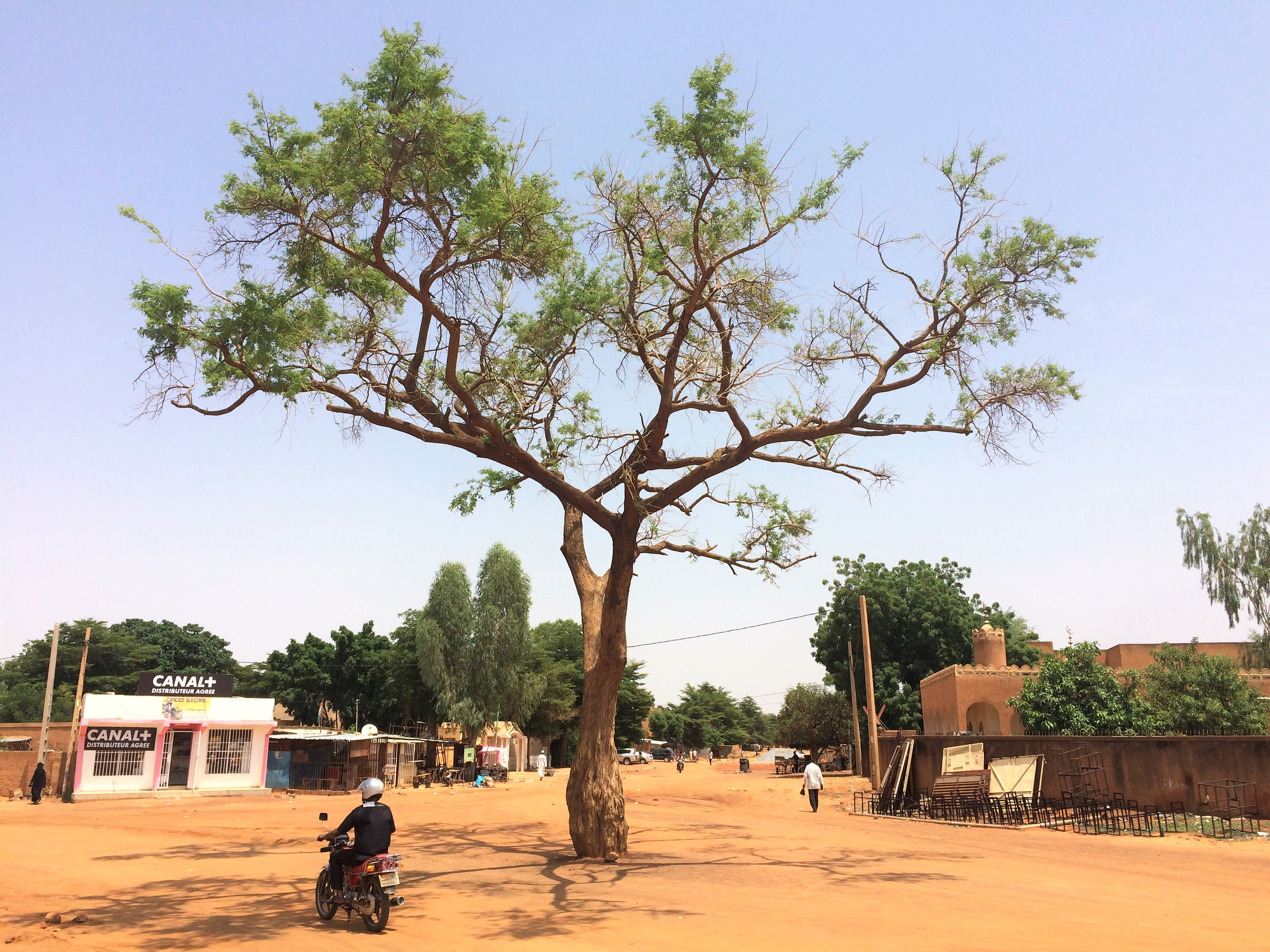 Scene on the Boulevard de la Nation (Rue YN-34, Yantala Nouveau neighborhood, Niamey, Niger).